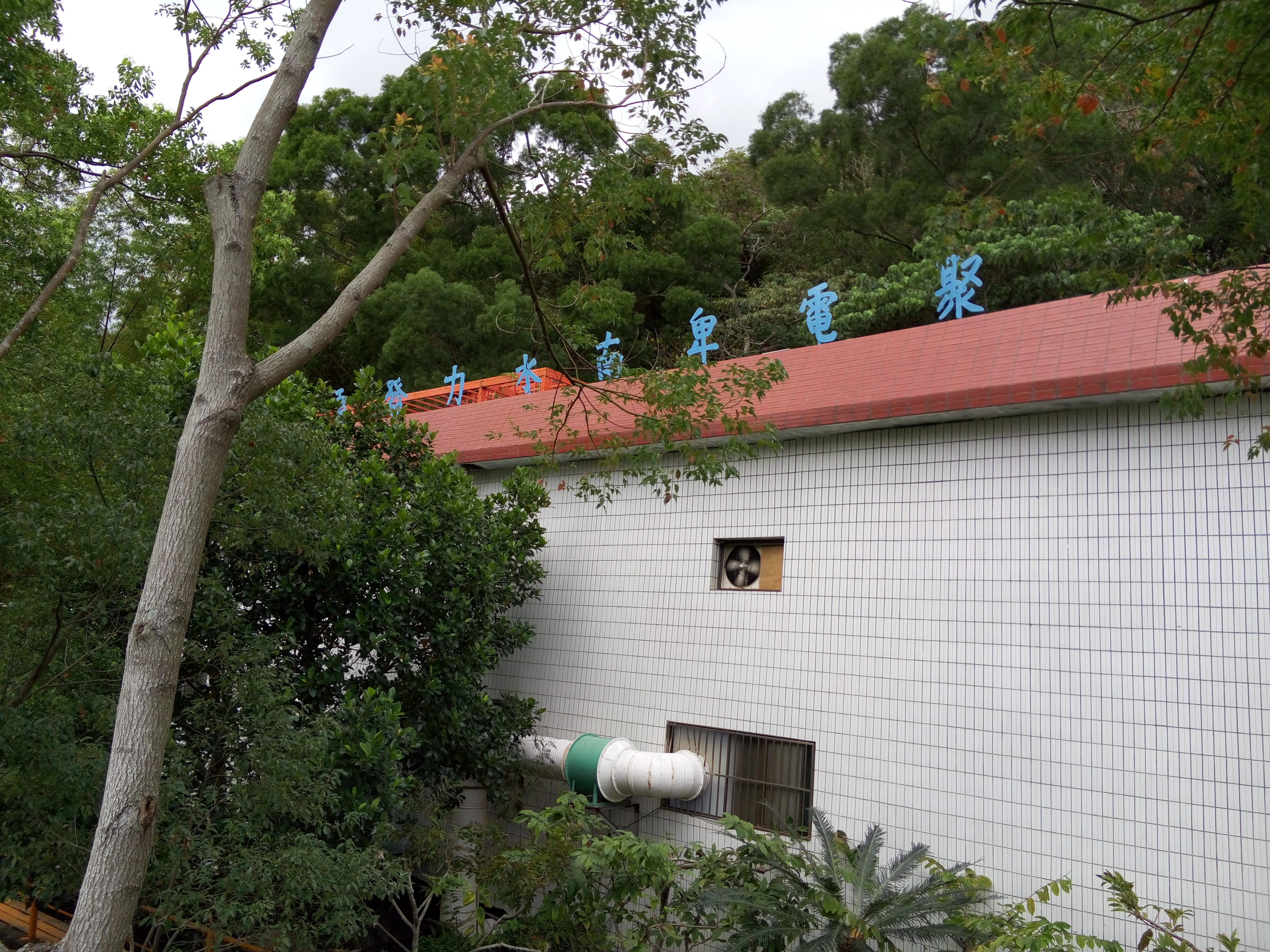 Taiwan(R.O.C)Taitung Yanping Township Beinan first waterway